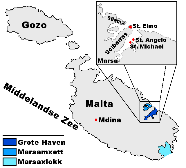 Map of the most important places during the Great Siege of Malta (1565).